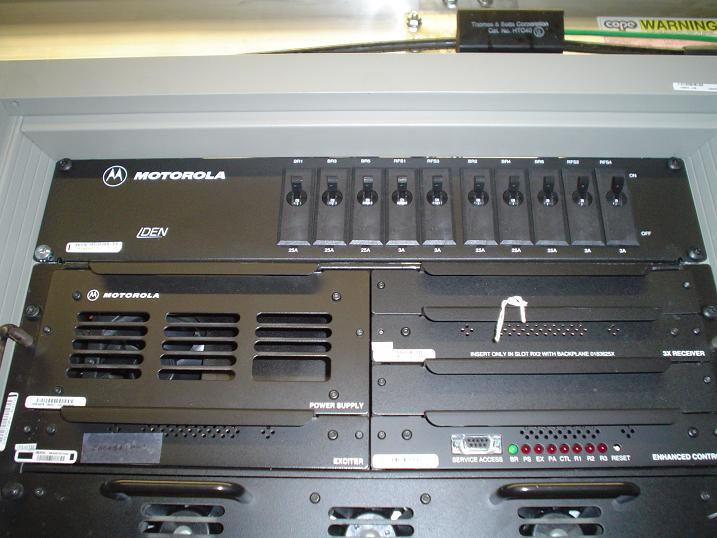 Taken by me at the Nextel tower in Ottisville, MI.